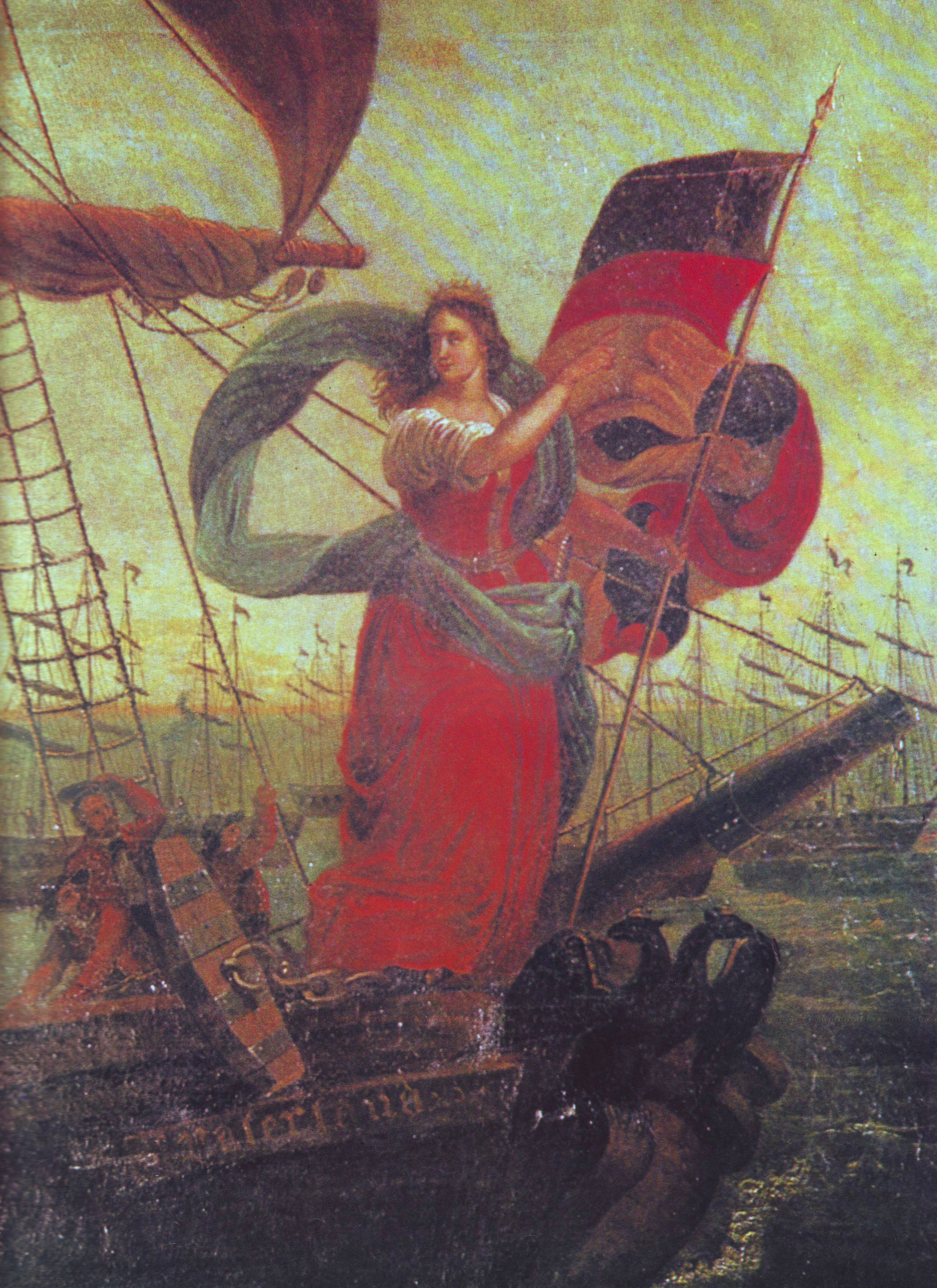 "Germania auf dem Meere". Painting by Lorenz Clasen (or Copy from the painting of 1865)